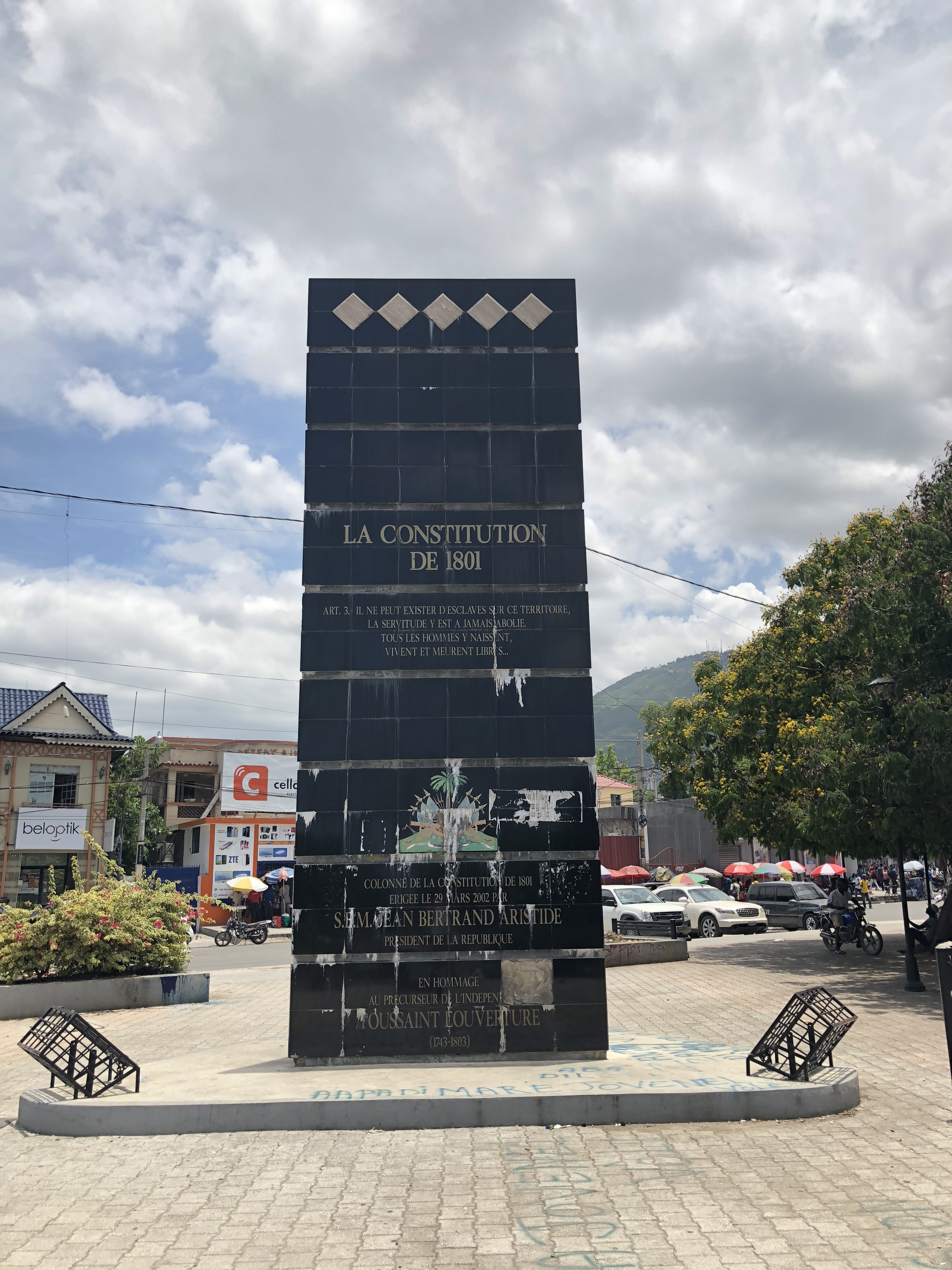 Constitution Monument near the Champ de Mars in the centre of Port-au-Prince.